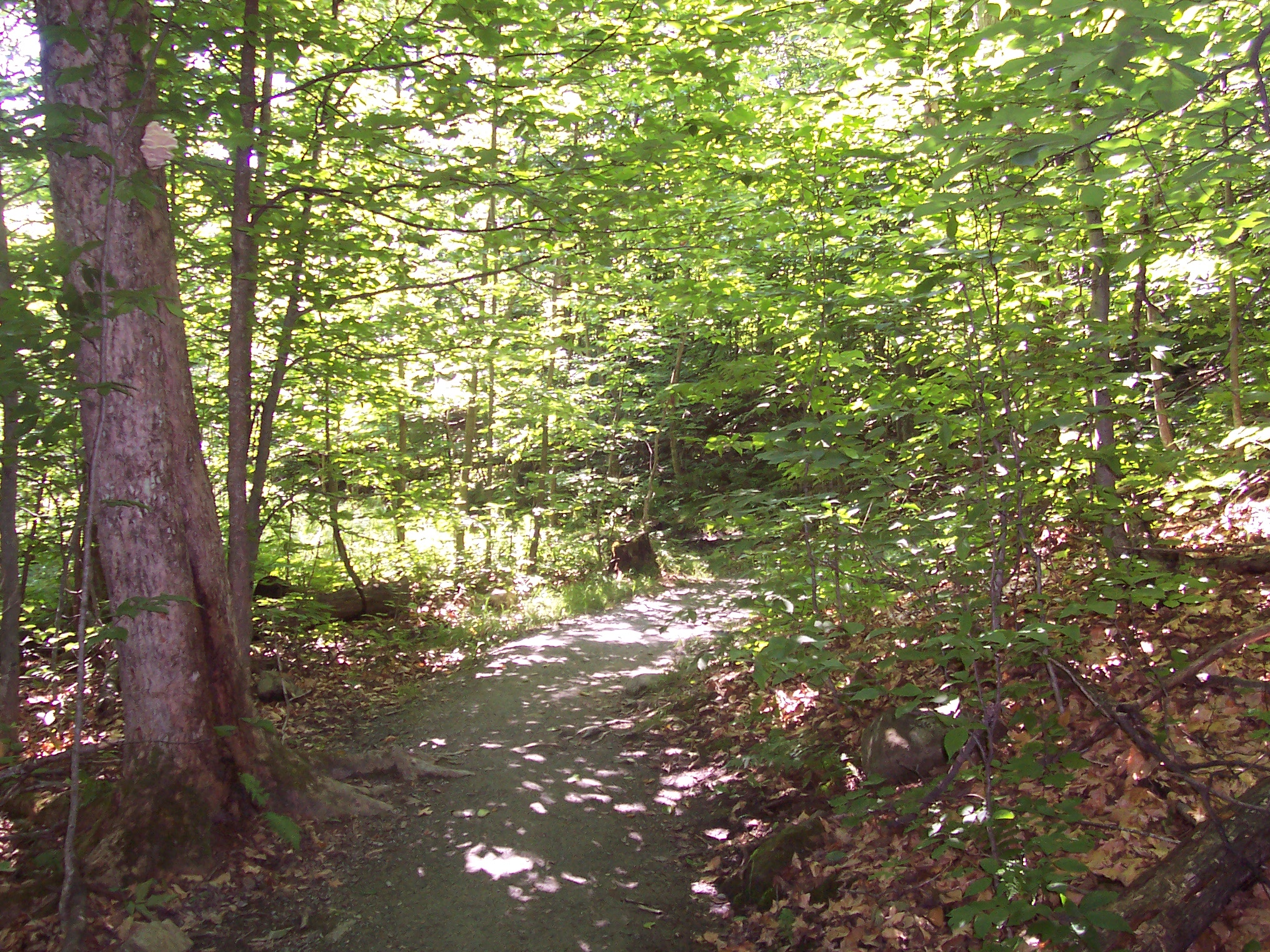 Mont Orford National Park (Quebec, Canada) - July 2007 - Track to the Fer-de-Lance pond